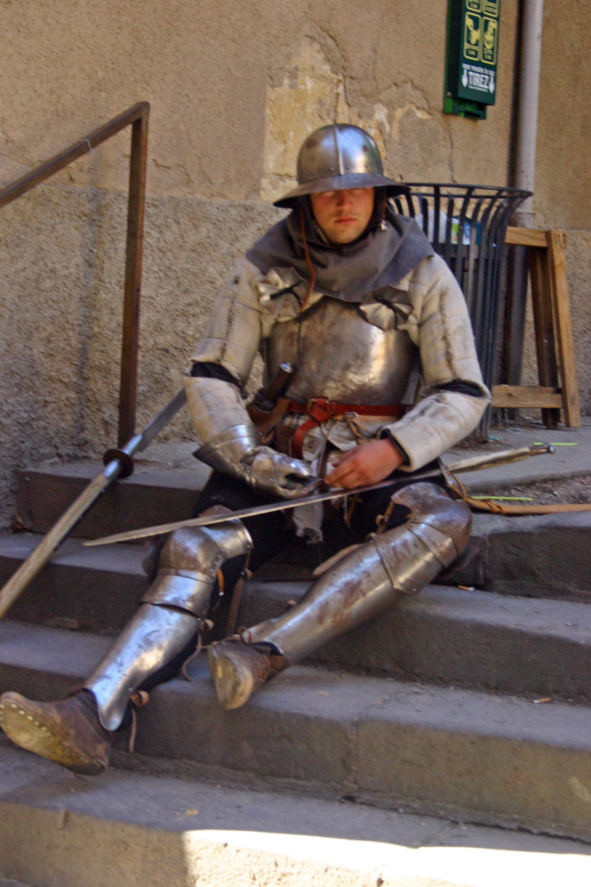 Man tired in heavy warrior costume at the medieval festival of Grand Fauconnier in Cordes-sur-Ciel (France)